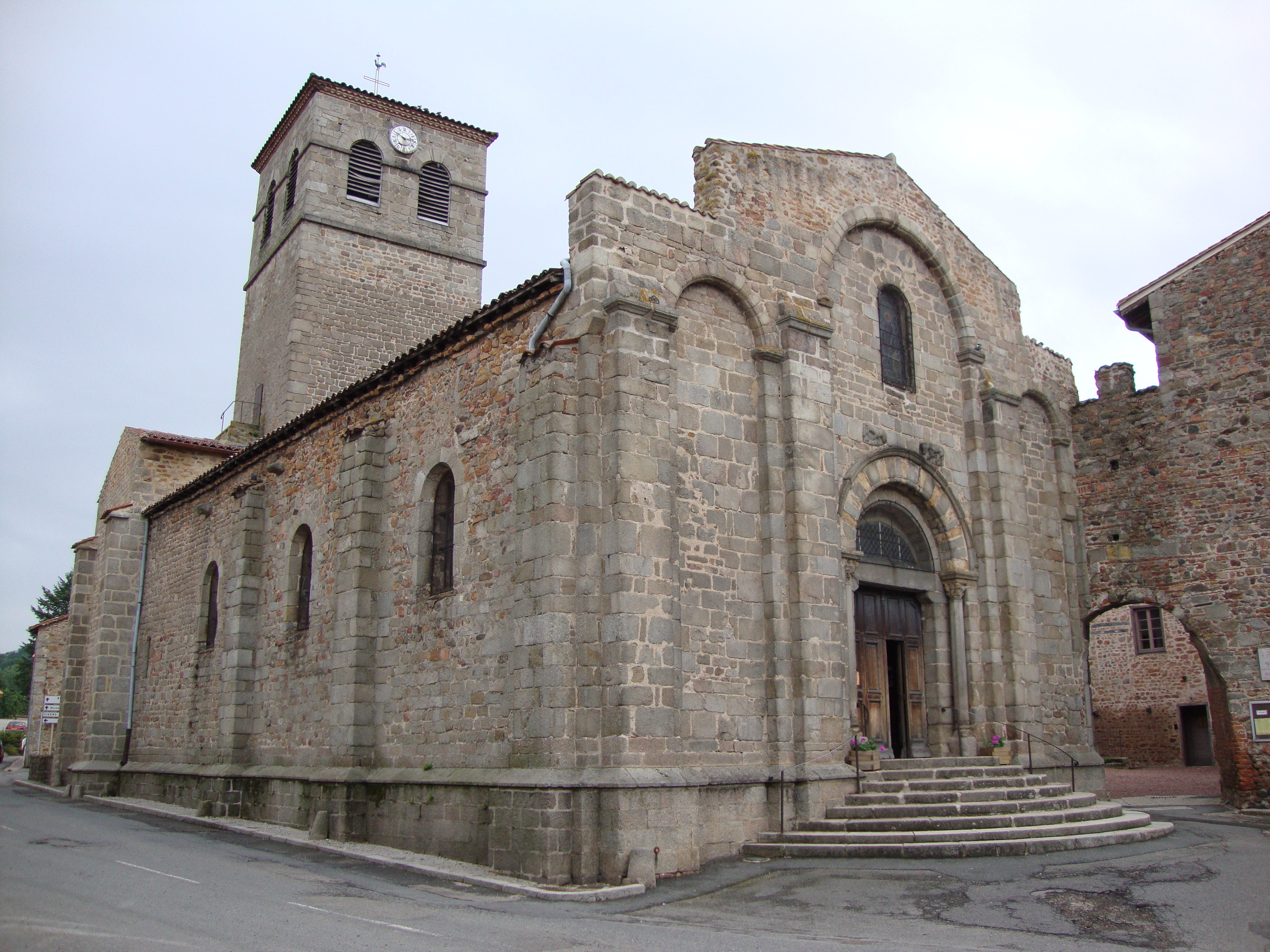 Pouilly-lès-Feurs (Loire, Fr) prieuré extérieur